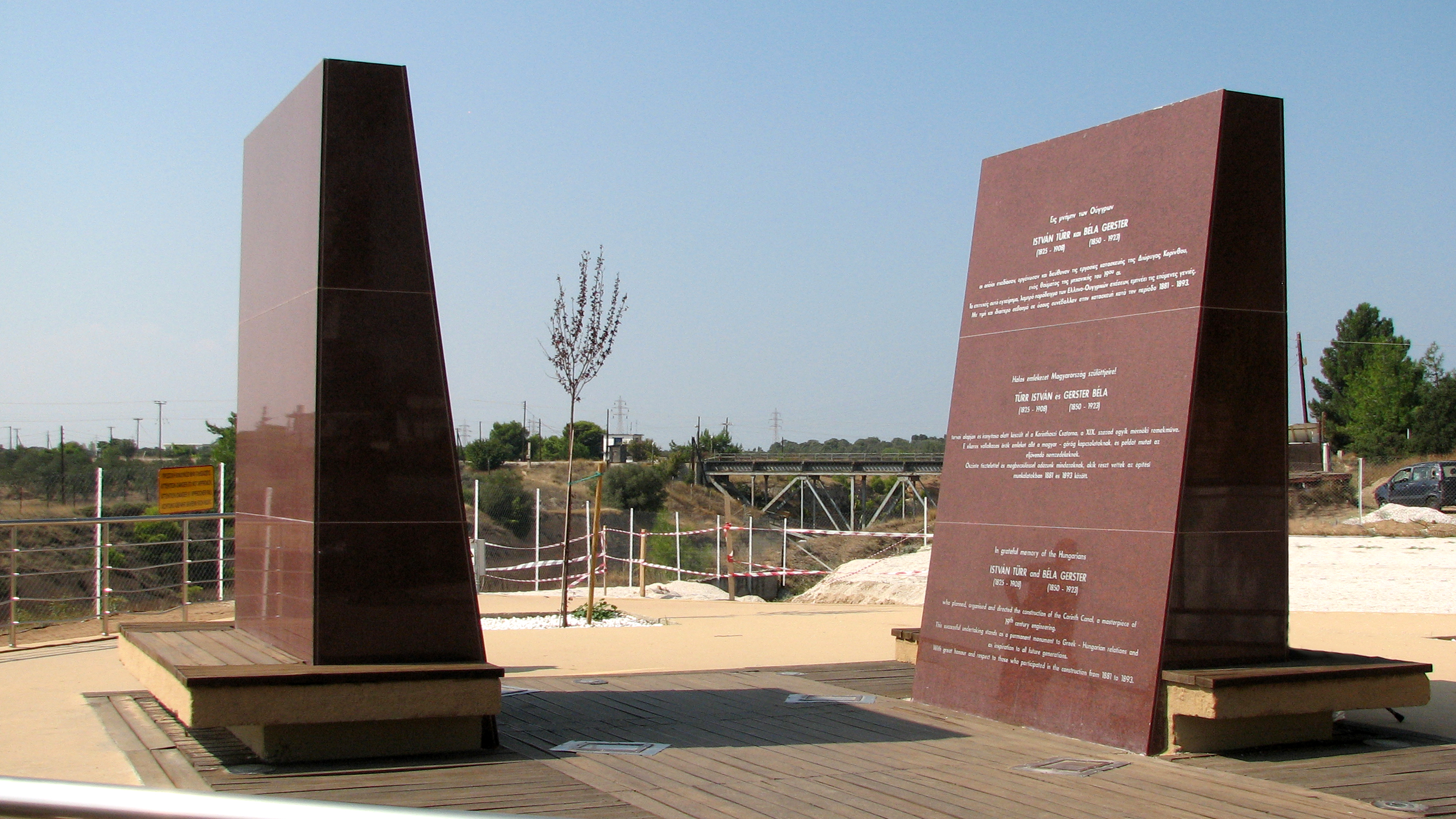 Monument at the Corinth Canal remembering the architects